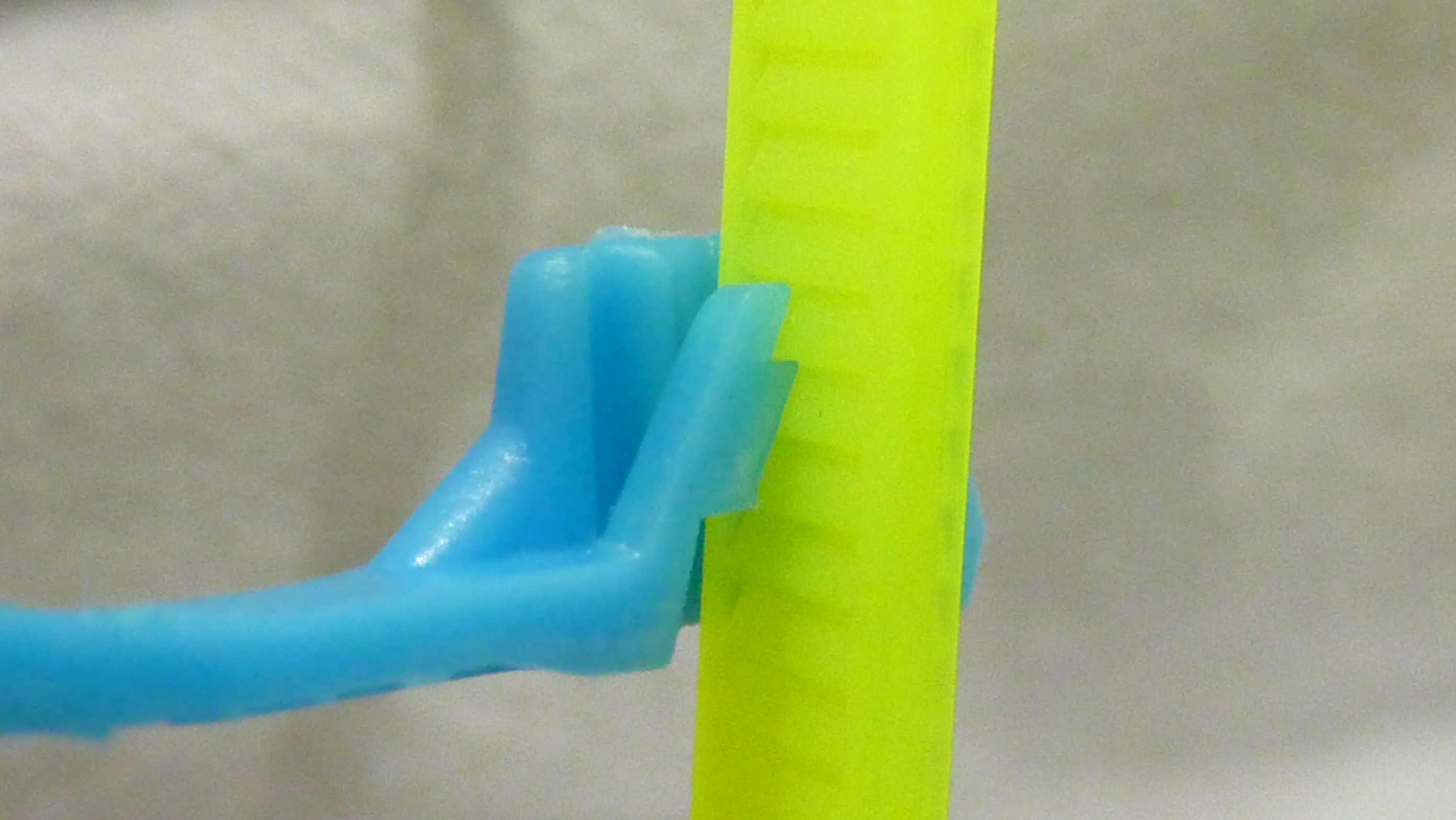 A cross section of a ziptie ratchet demonstrating the mechanism of a ziptie